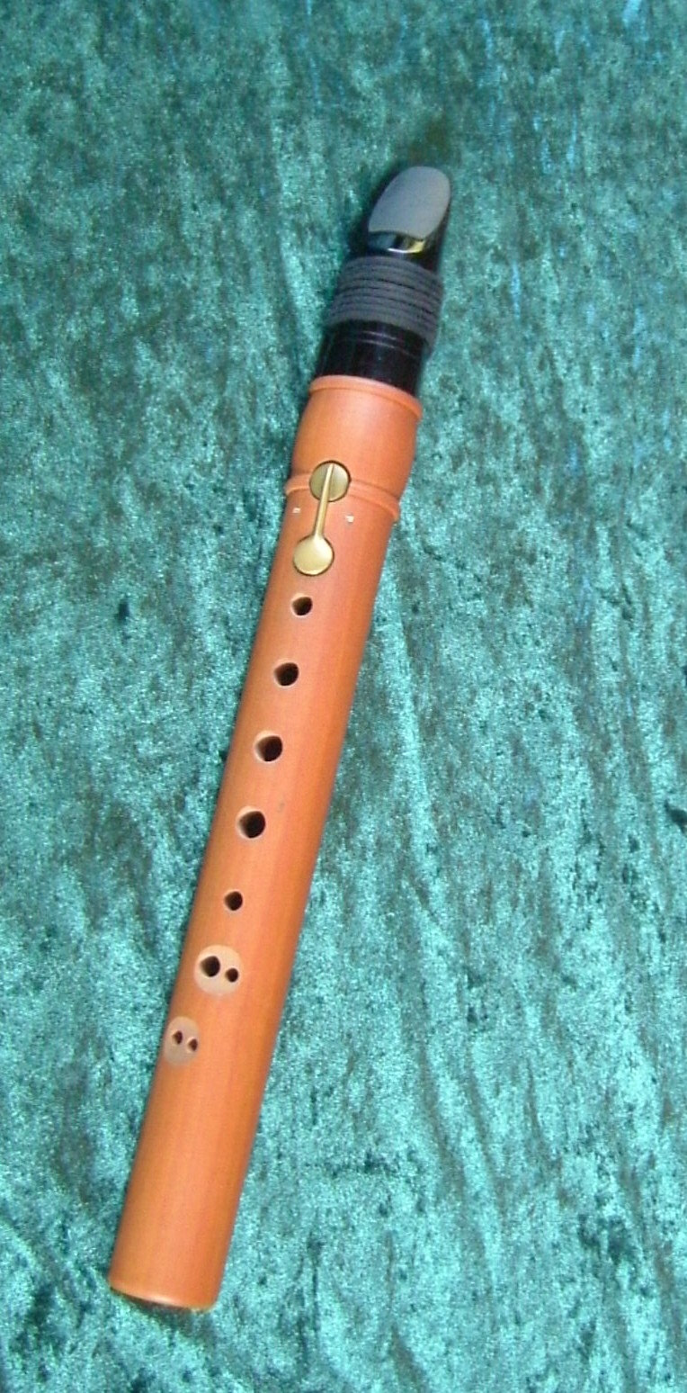 2-Key Chalumeau (modern)